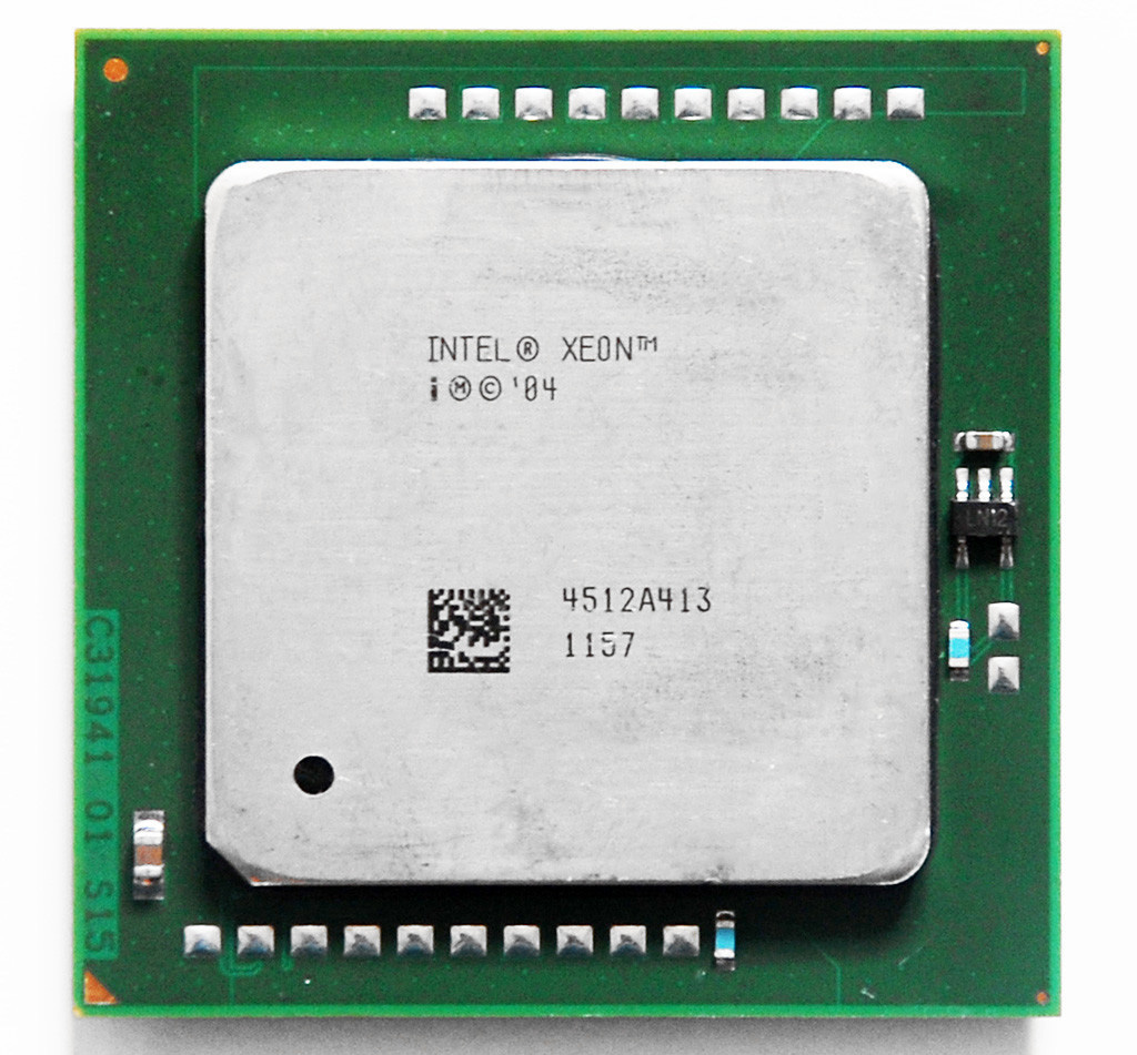 64-bit Intel® Xeon® Processor 3.00 GHz, 1M Cache, 800 MHz FSB